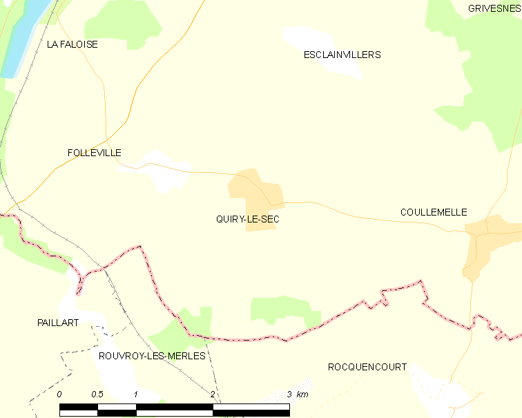 Map of French municipality Quiry-le-Sec